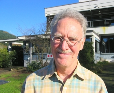 Jerry Bona, American mathematician, at the Oberwolfach workshop on Mathematical Theory of Water Waves, November 2006.